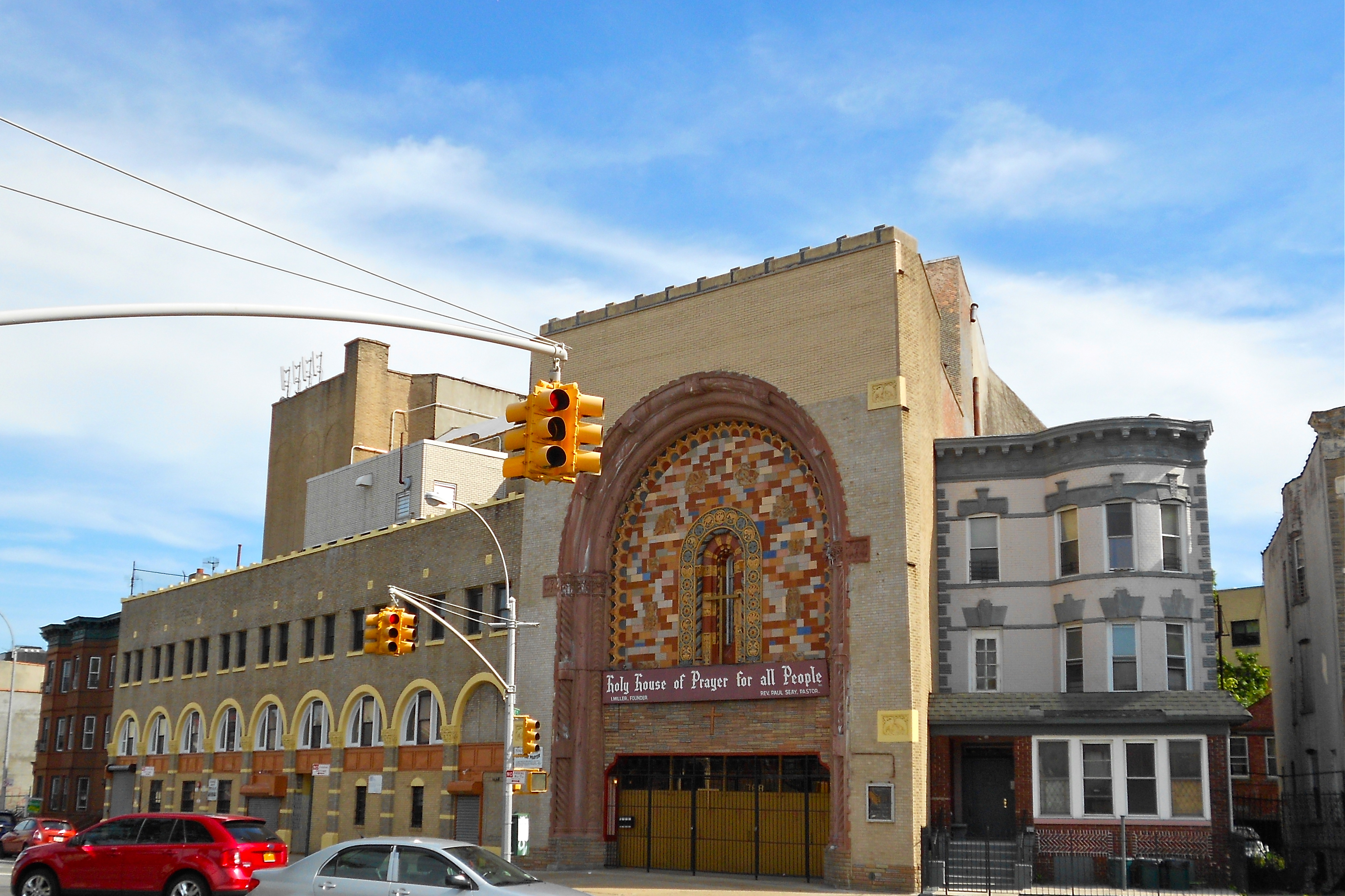 Looking southeast at Parkway Theatre Listed by NRHP on March 31, 2010. At1 768 St. John's Pl., at the corner of Eastern Parkway, Brooklyn, New York